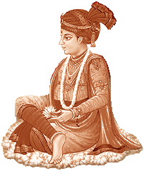 A painting of Bhagwan Swaminarayan